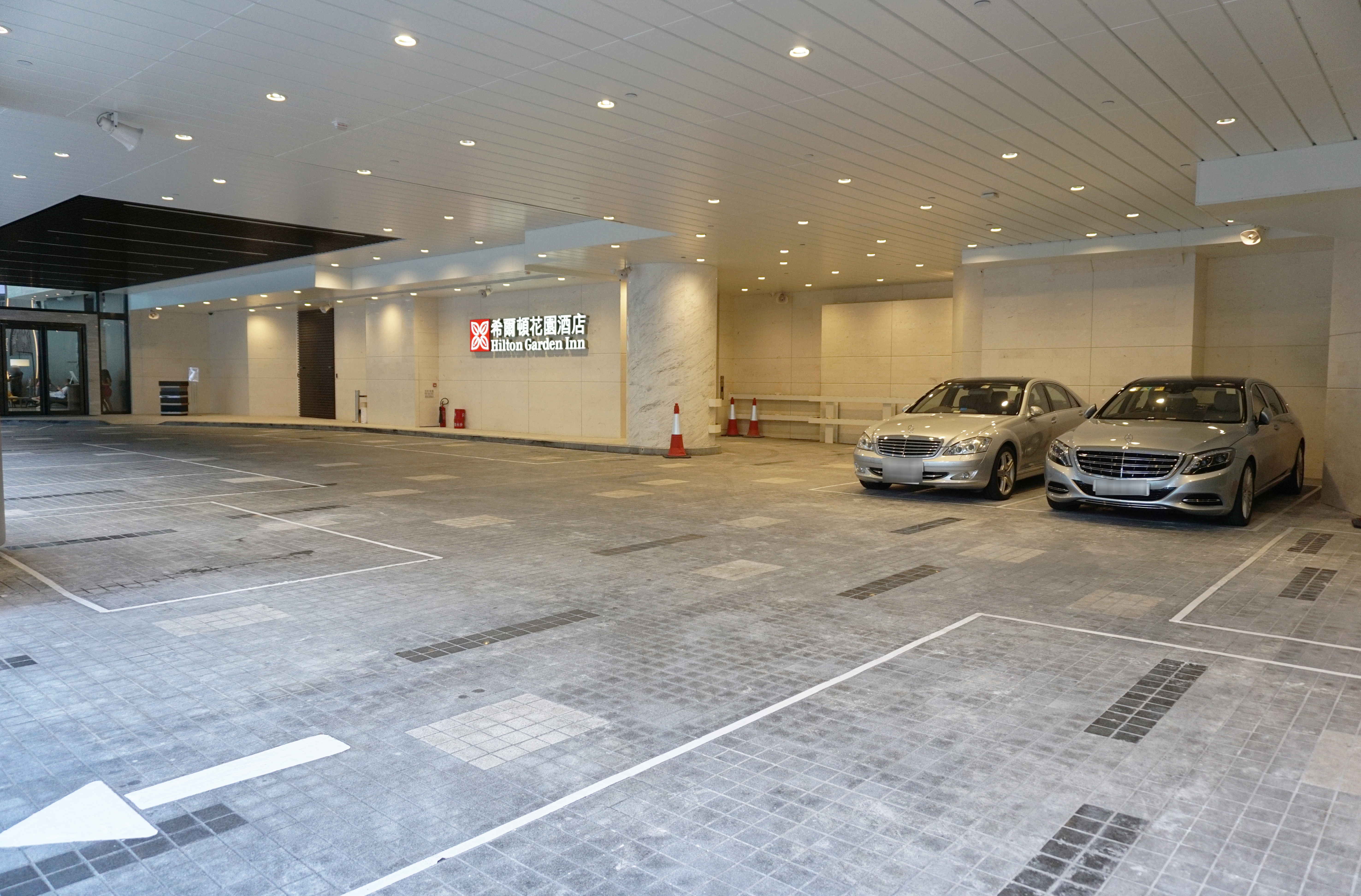 Hilton Garden Inn in Mongkok, Hong Kong.